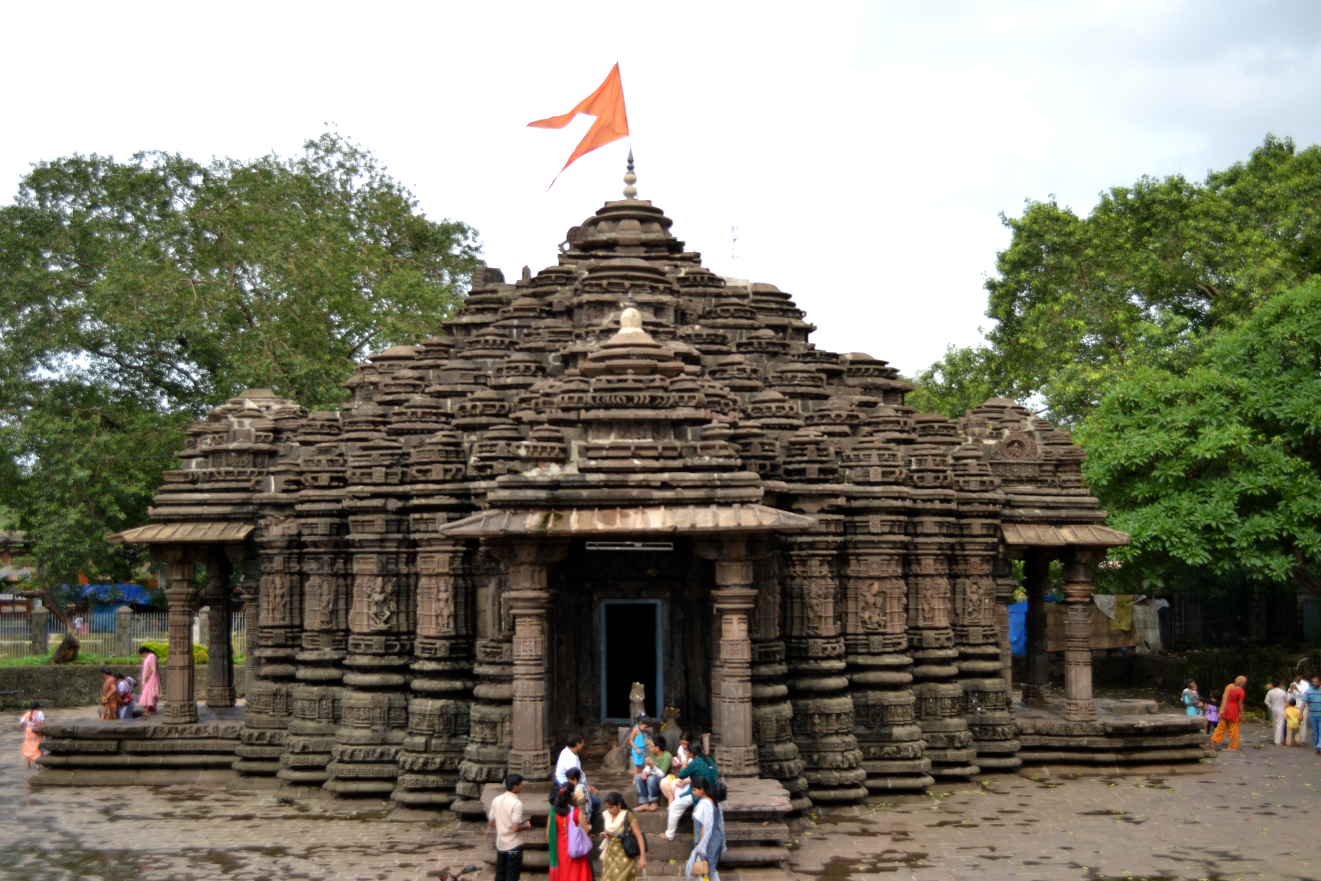 Lord Shiva Temple in Ambernath, dating back to 16th Century.